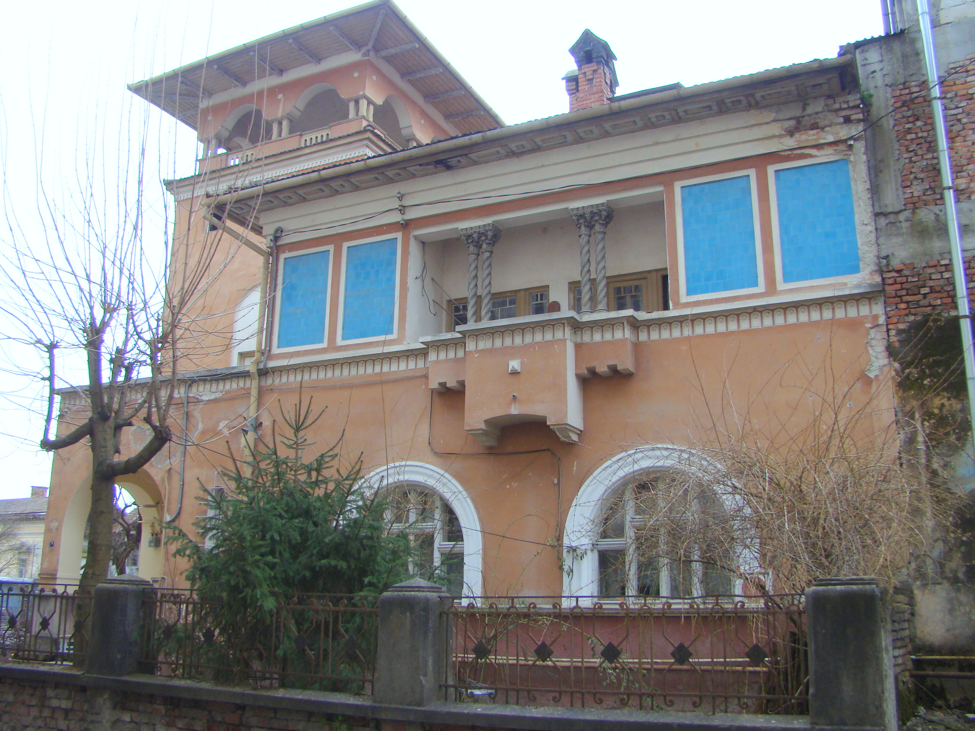 House, historic monument, in Dej, Mircea cel Bătrân street, number 7